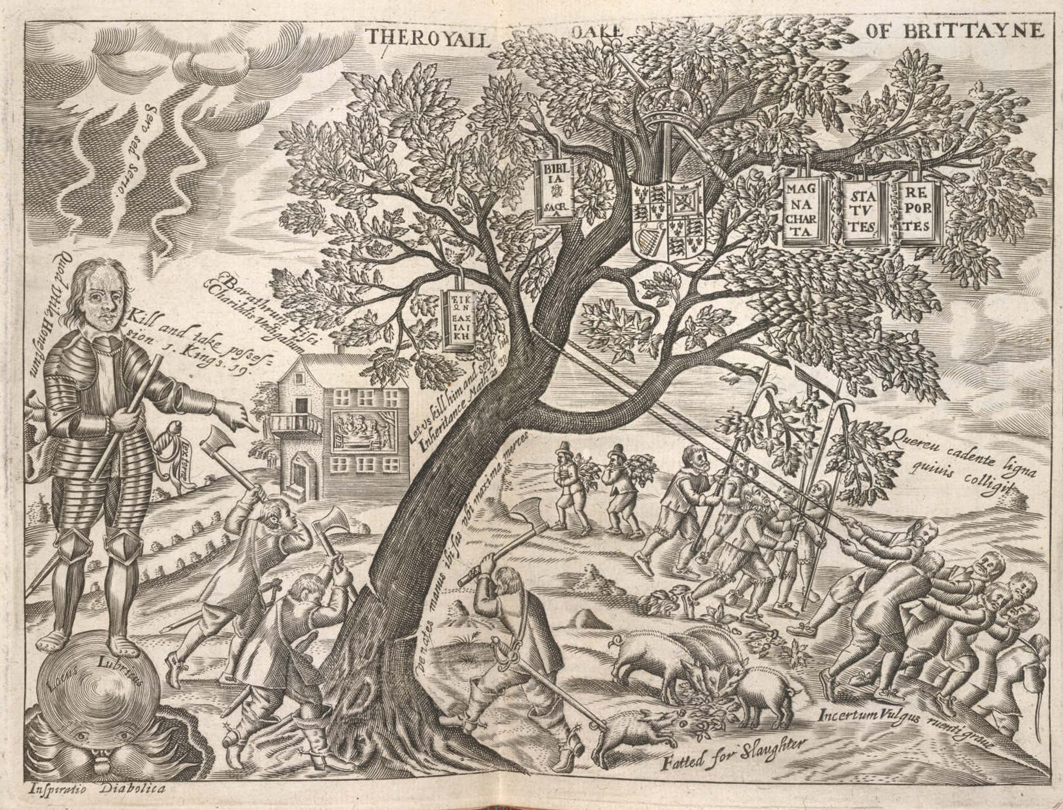 Cromwell cutting down the Royal Oak, 1649. This satirical print depicts Oliver Cromwell ordering the felling of the Royal Oak of Britain, symbol of the English monarchy. It was made in 1649 during the English Civil War in the year of the execution of Charles I. The image is believed to have been the frontispiece to the book 'Anarchia Anglicana or the history of independency. The second part', by Clement Walker, a pamphleteer and member of Parliament, writing under the pseudonym Theodorus Verax. Although initially sympathetic to Parliament during the Civil War, Walker became disillusioned with Cromwell and believed that he had become a religious radical and despot whose actions had led Britain into anarchy. This print expresses Walker’s unease at developments during this period. The image is full of references to Oliver Cromwell’s dismantling of the regime of Charles I. Cromwell is shown to the left of the image standing on a sphere suspended over the mouth of hell from which he draws diabolical inspiration. The sphere is inscribed in Latin 'Locus Lubricus' or ‘slippery place’ indicating Cromwell’s precarious position. The print portrays him as a hypocrite, driven by ambition and greed, and various quotes from the Bible link him to notorious biblical figures. Suspended in the branches of the tree are the royal crown, sceptre and coat of arms with the Bible and Magna Carta, and a copy of 'Eikon Basilike', a book supposedly written by Charles I in the days before his execution. The tree is being felled by republican soldiers and its branches gathered by the ignorant multitude. The references are clear that if Cromwell was allowed to continue in his rise to power his rule would result in lawless tyranny. Clement Walker was arrested for writing 'Anarchia Anglicana' and charged with high treason. However his case never came to trial and he died in the Tower of London in 1651.